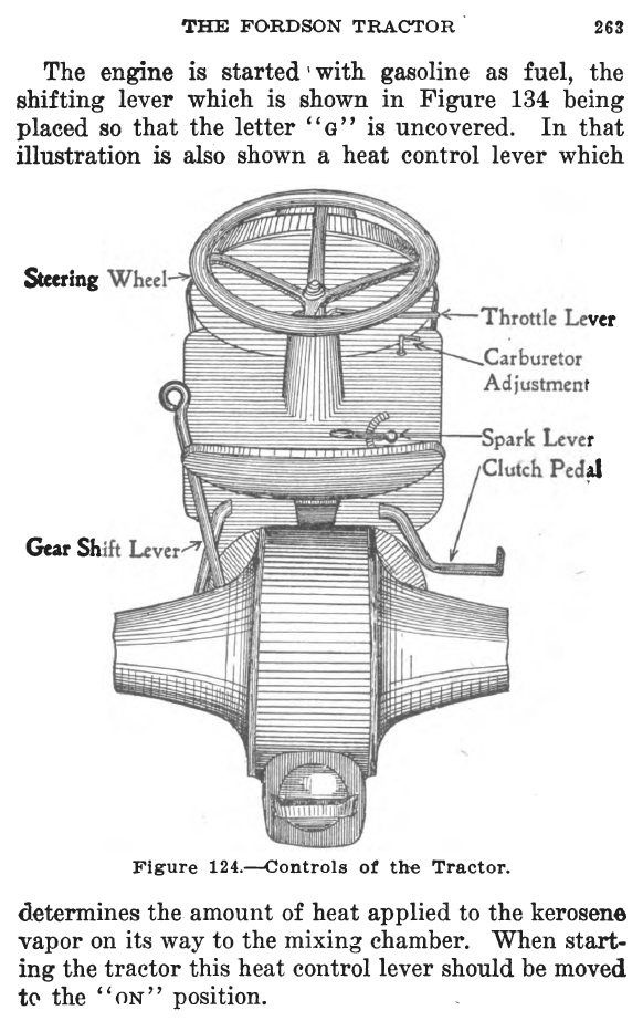 An operator's-eye view of the controls of the original Fordson tractor (including the steering wheel, clutch pedal, throttle lever, carburetor control lever, spark advance lever, and gear shift lever).